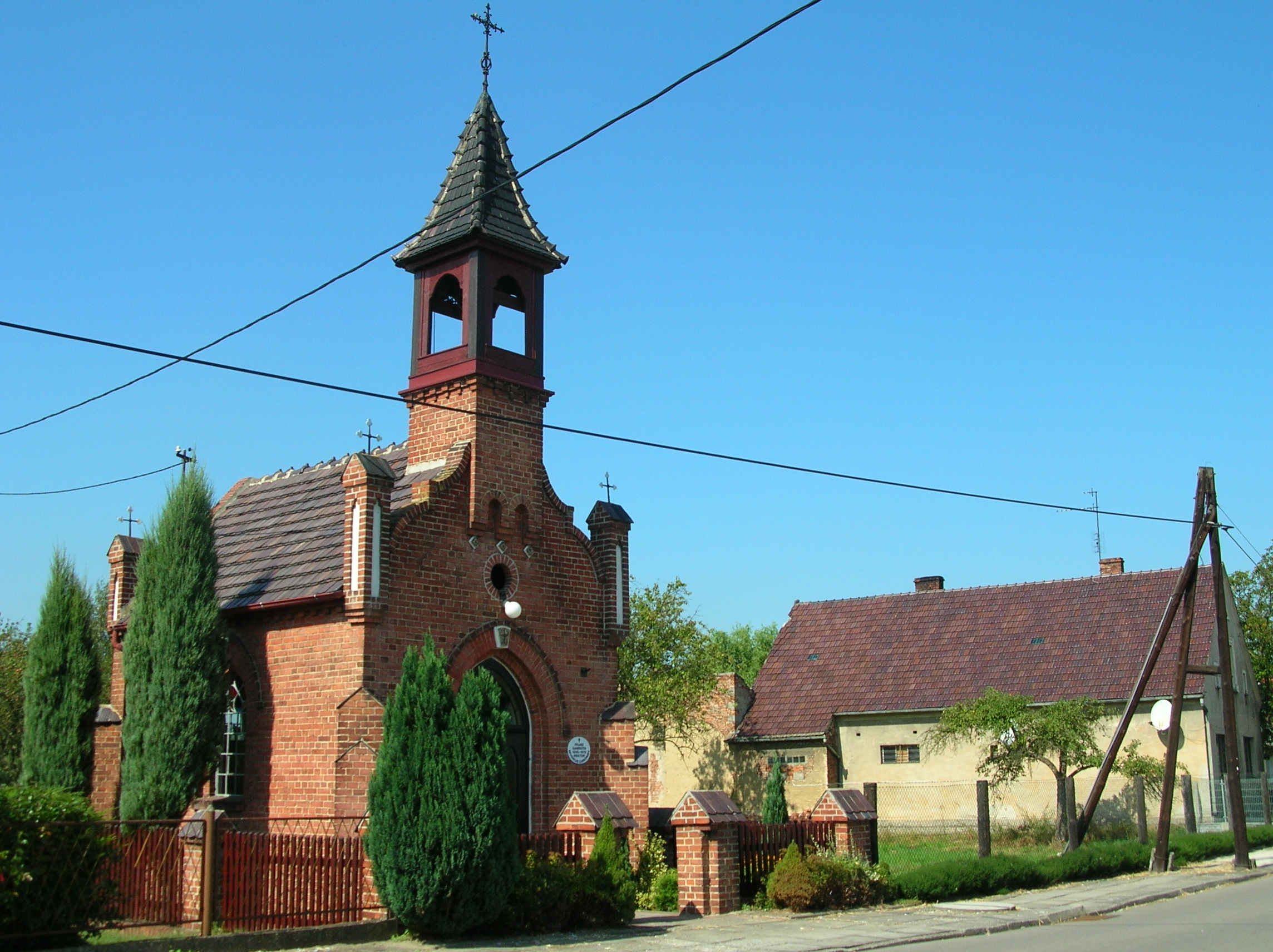 Chapel in Gwoździce, Poland